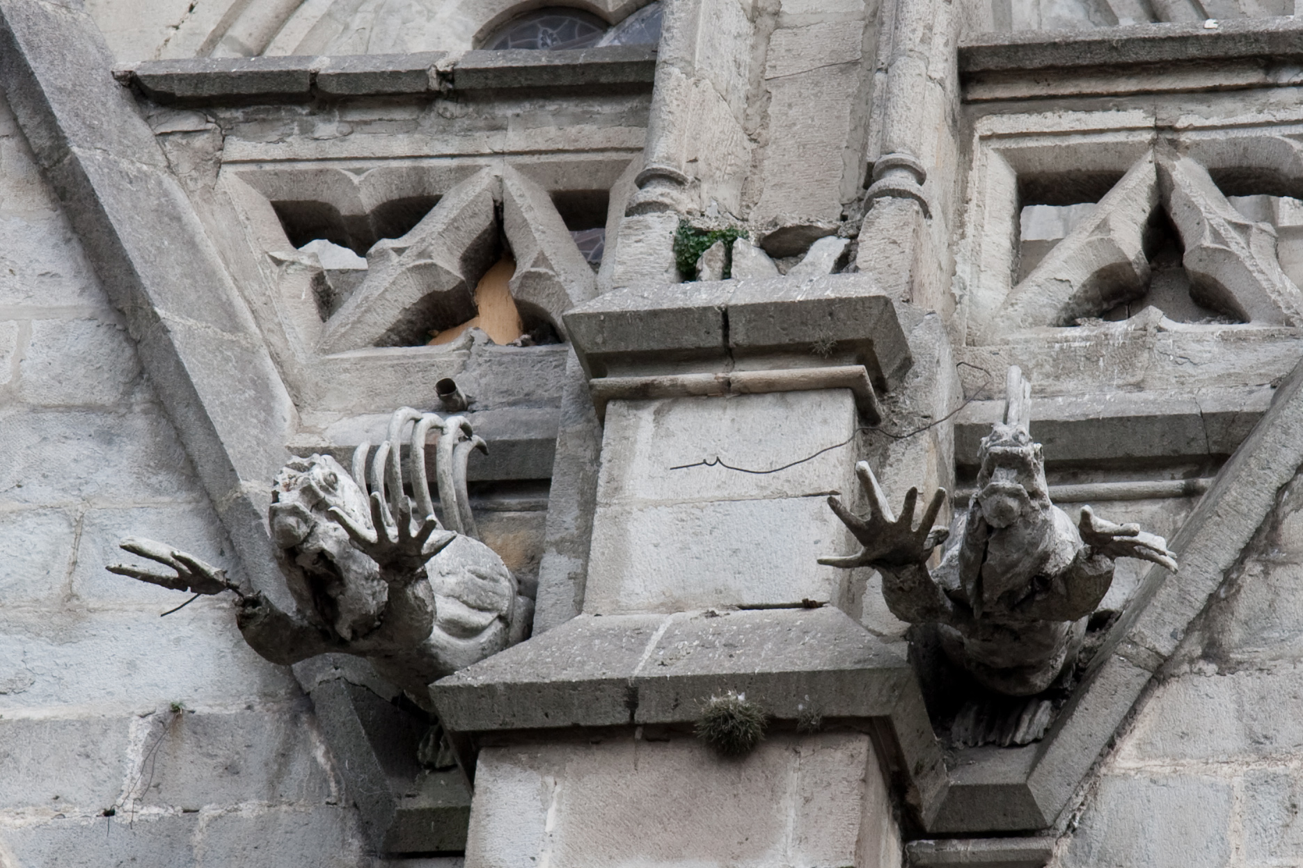 The Basilica of the National Vow (Spanish: Basílica del Voto Nacional) is a Roman Catholic church located in Quito, Ecuador. 0°12′54.2″S 78°30′27.4″W / 0.215056°S 78.507611°W